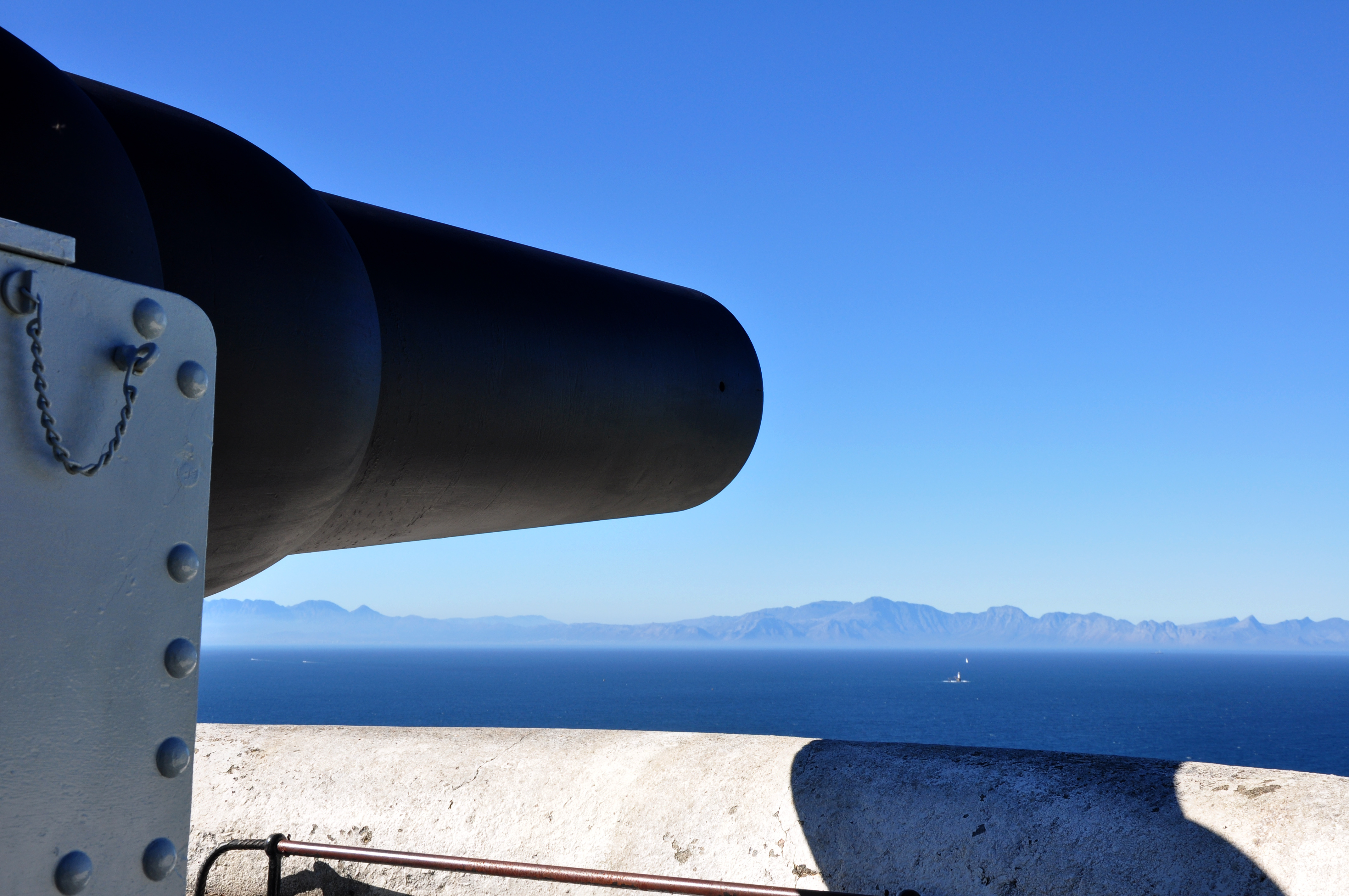 This media shows a South African Protected Site with SAHRA file reference 9/2/081/0069.